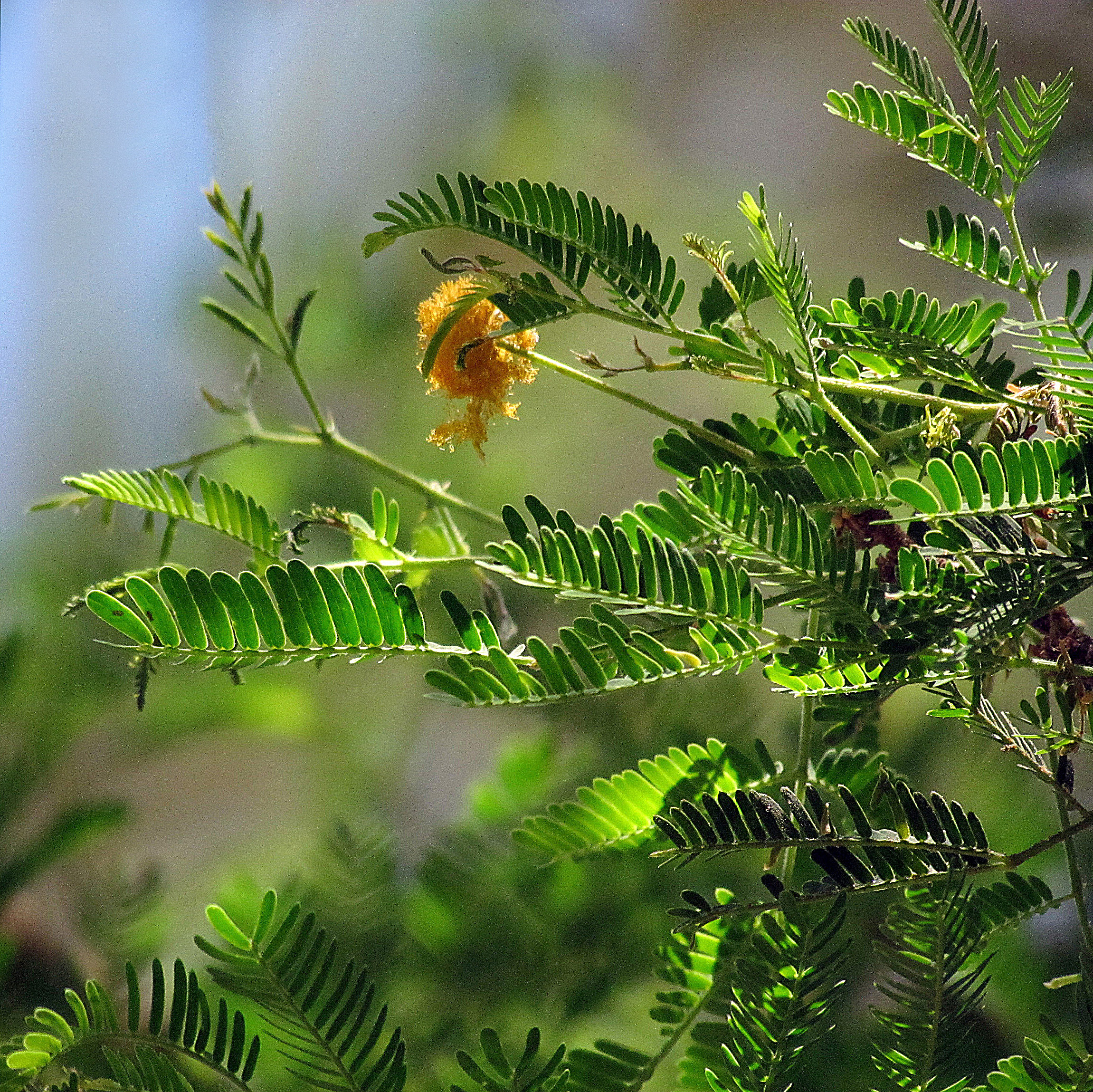 Vachellia farnesiana inflorescence (Sharm el-Sheikh)